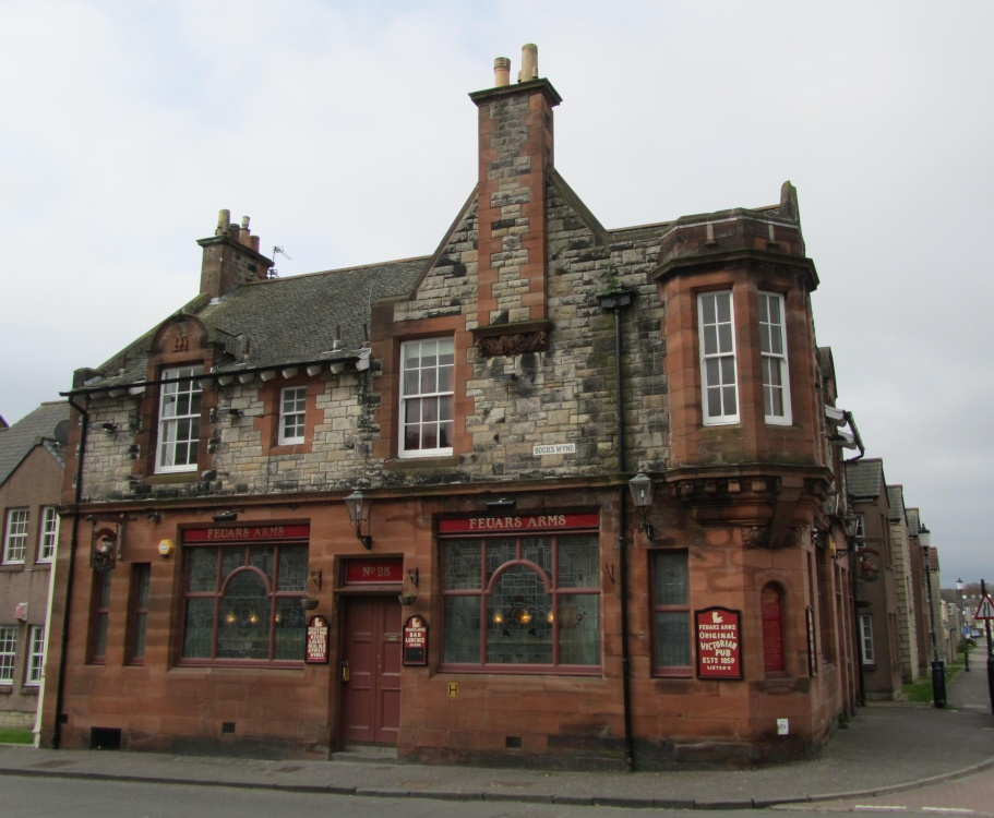 Commercial Street And Bogies Wynd, Feuars Arms